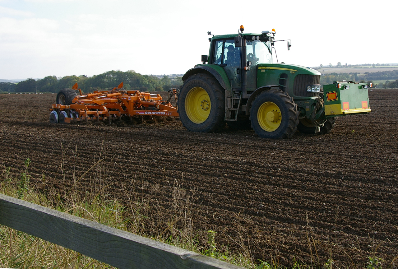 Cultivating near Melton Ross, North Lincolnshire, Great Britain. The tractor is a John Deere 7530 towing a Simba CultiPress 4.6m (a set of cultivating tines followed by a levelling board and two rows of 600 mm DD press rings).